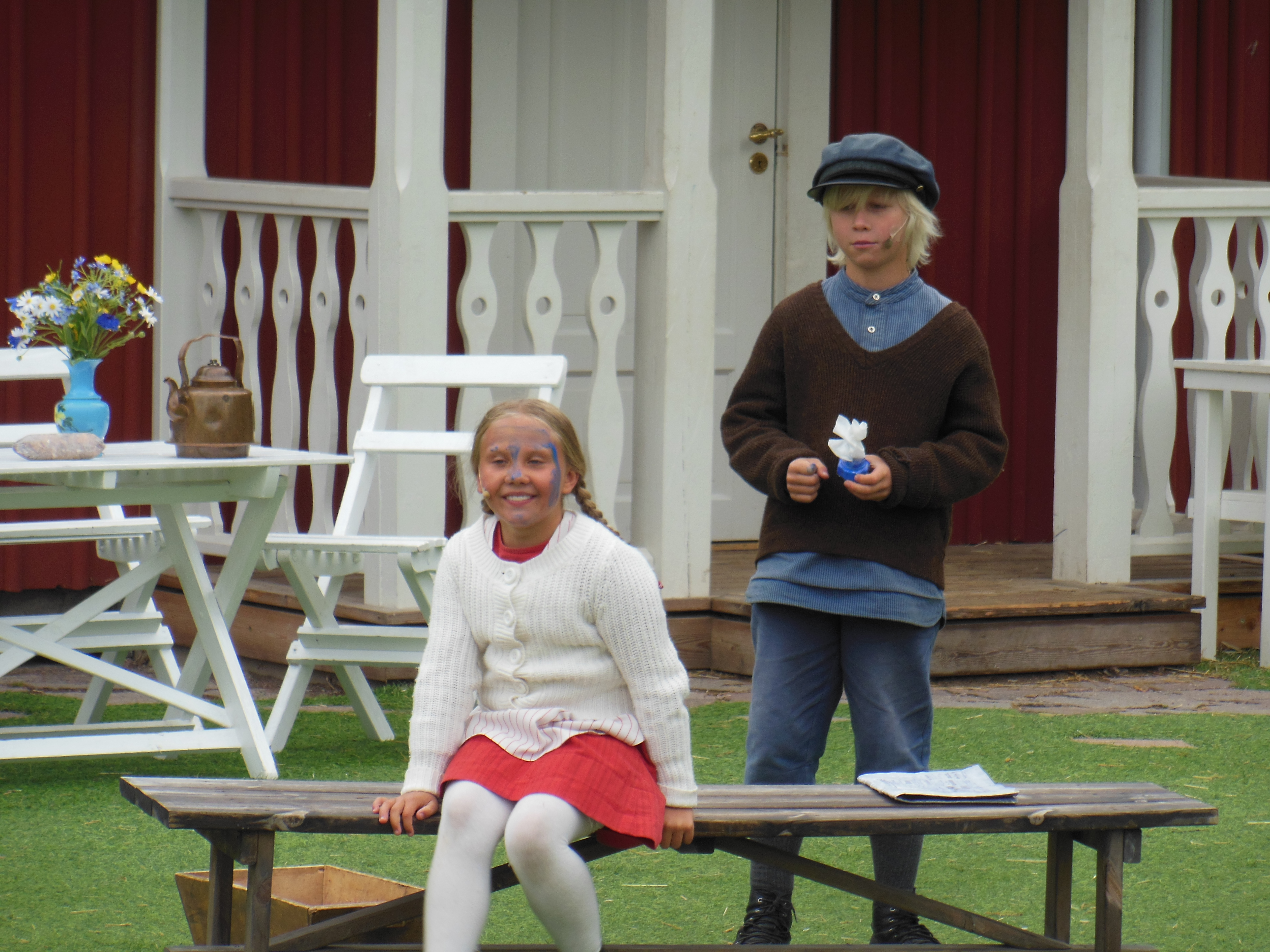 Emil and Ida at Astrid Lindgrens Värld, Vimmerby 2014. Emil has painted his sisters face blue.